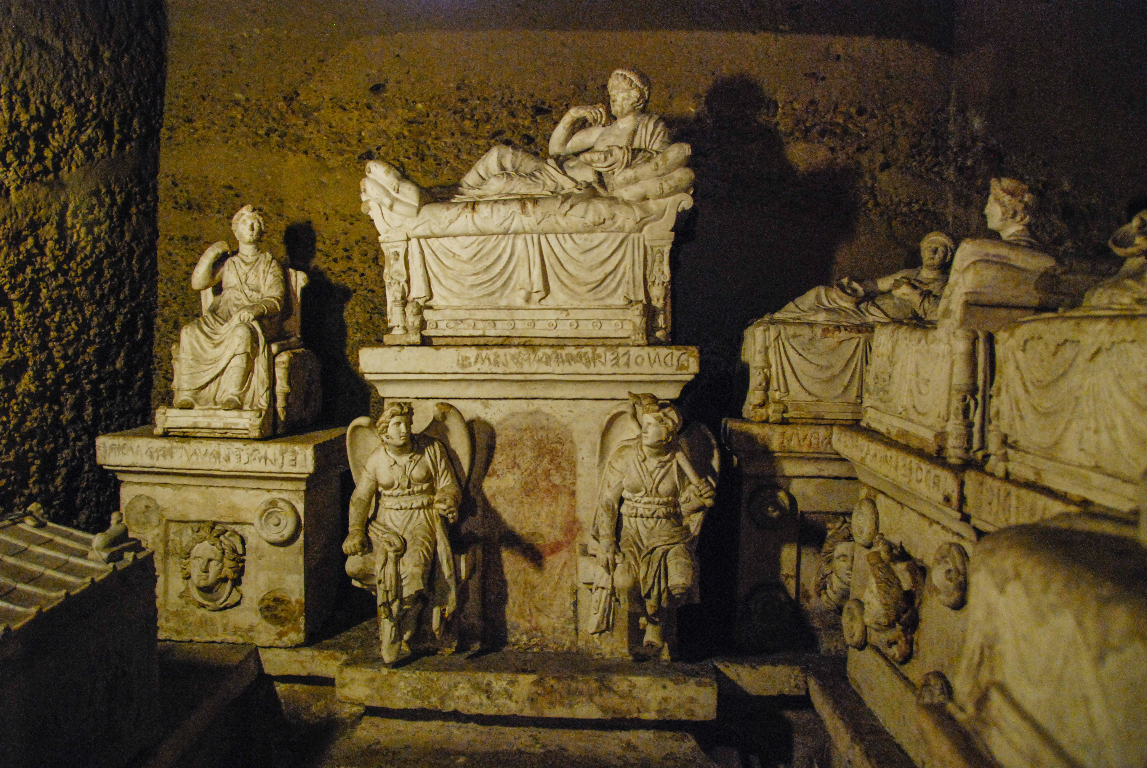 Photo of the Tablinum in the Hypogeum of the Volumnis, Perugia, Italy. The chamber in the privileged position, opposite the stair along the axis of the atrium, is analogous to the tablinum, or master`s study, where family records and deities resided. This chamber contains seven travertine cinerary urns, some covered with stucco, as well as sculptures in sandstone, terracotta, and marble. These sculptures depict not only the individuals interred in the tomb, but also mythological beasts such as Gorgons and serpents, which represent the Furies and demons in Etruscan belief systems. In the center stands the highly decorated crypt of Arnth Velimna, who is commemorated in the inscription on the doorpost of the entrance as one of the founders of the tomb. While most of these Velimna family effigies date from the pre-Roman period, one has an inscription in Latin and is thought to be from the early years under Roman rule, when local mortuary traditions were still being observed.